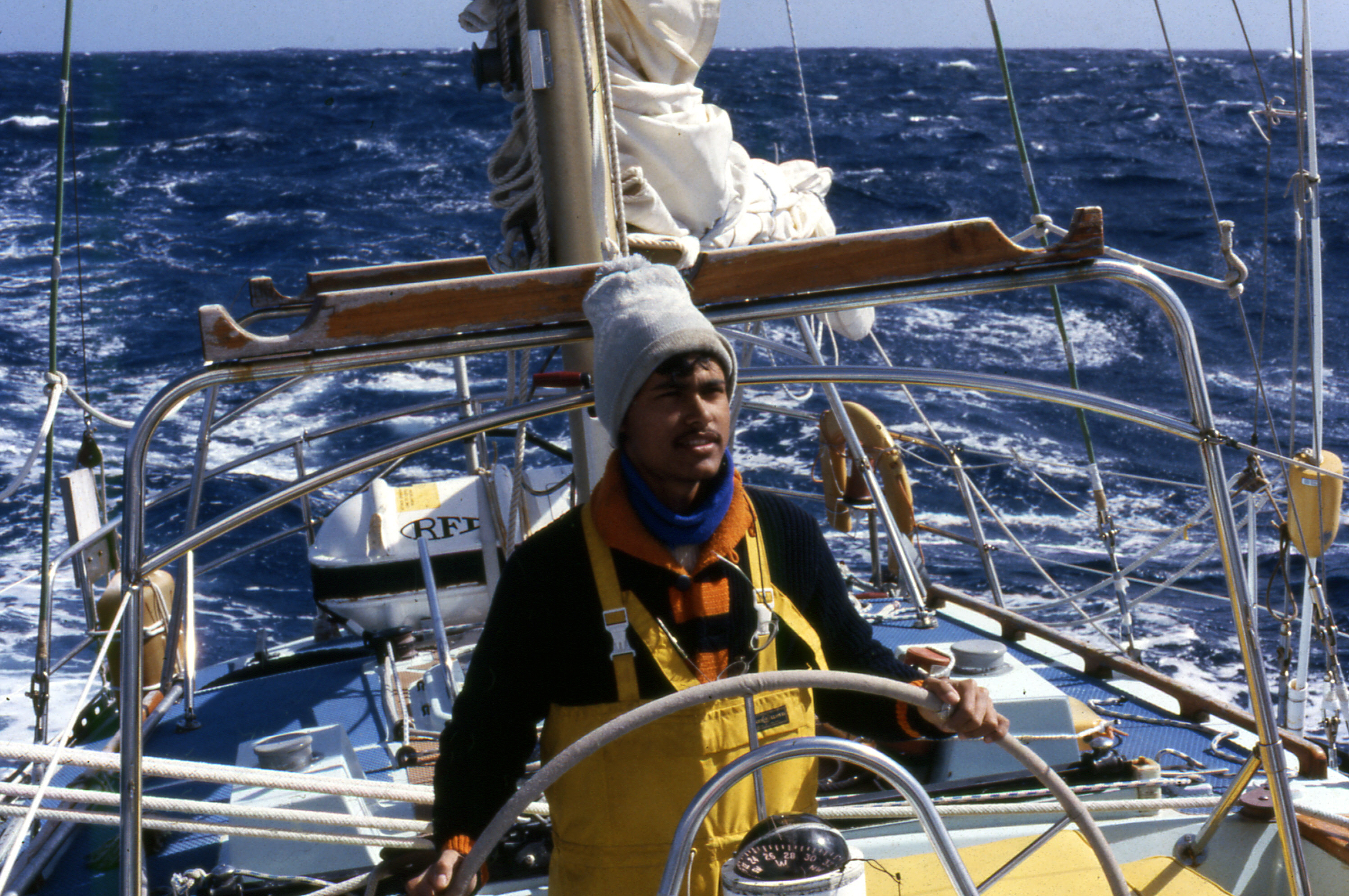 Pierre La Borde sailing on Humming Bird III in the Southern Pacific Ocean.